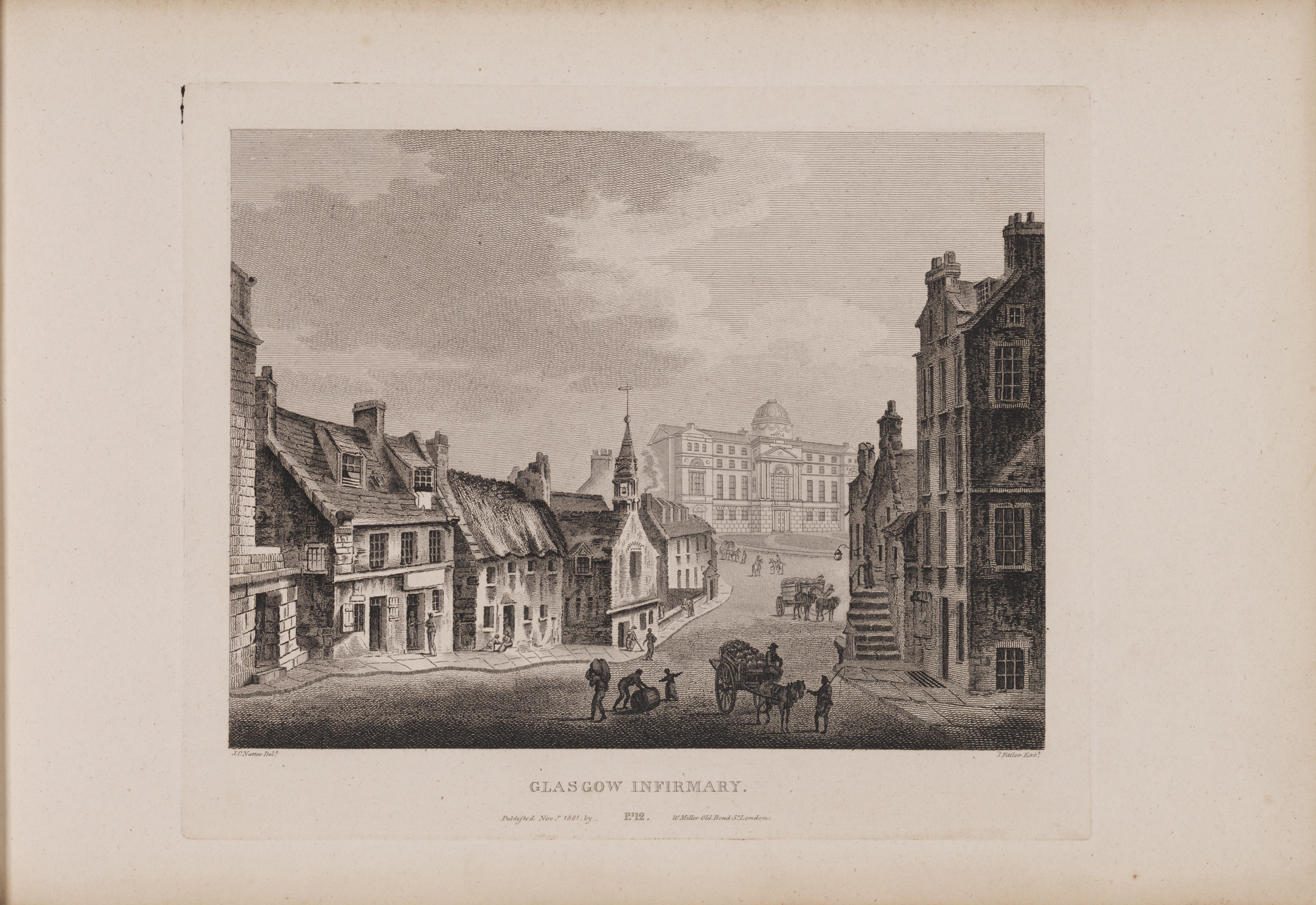 Plate XII/b - John Claude Nattes made drawings of suitable scenes on the spot; etchings are by James Fittler. - John Claude Nattes made drawings of suitable scenes on the spot; etchings are by James Fittler.